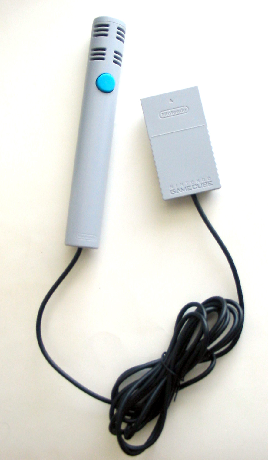 Nintendo GameCube Microphone. This device connects to the Gamecube memory slot, with this you can control some games with voice commands like, Mario Party 6, Mario Party 7, Odama and sing with Karaoke games like Karaoke Revolution.